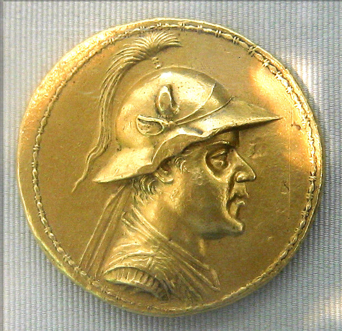 Gold 20-stater of Eucratides. This coin, the largest surviving gold coin from Antiquity, was originally found in Bukhara, and later acquired by Napoleon III. The coin weighs 169.2 grams, and has a diameter of 58 millimeters. Cabinet des Medailles, Paris. Personal photograph 2006.